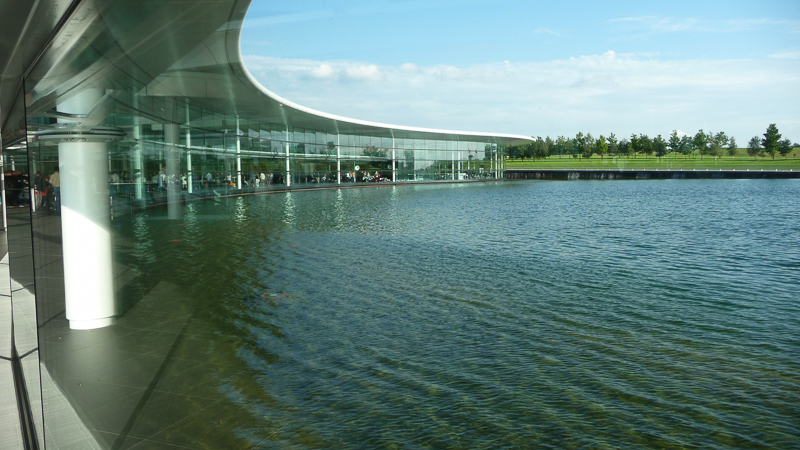 McLaren Technology Centre, Woking